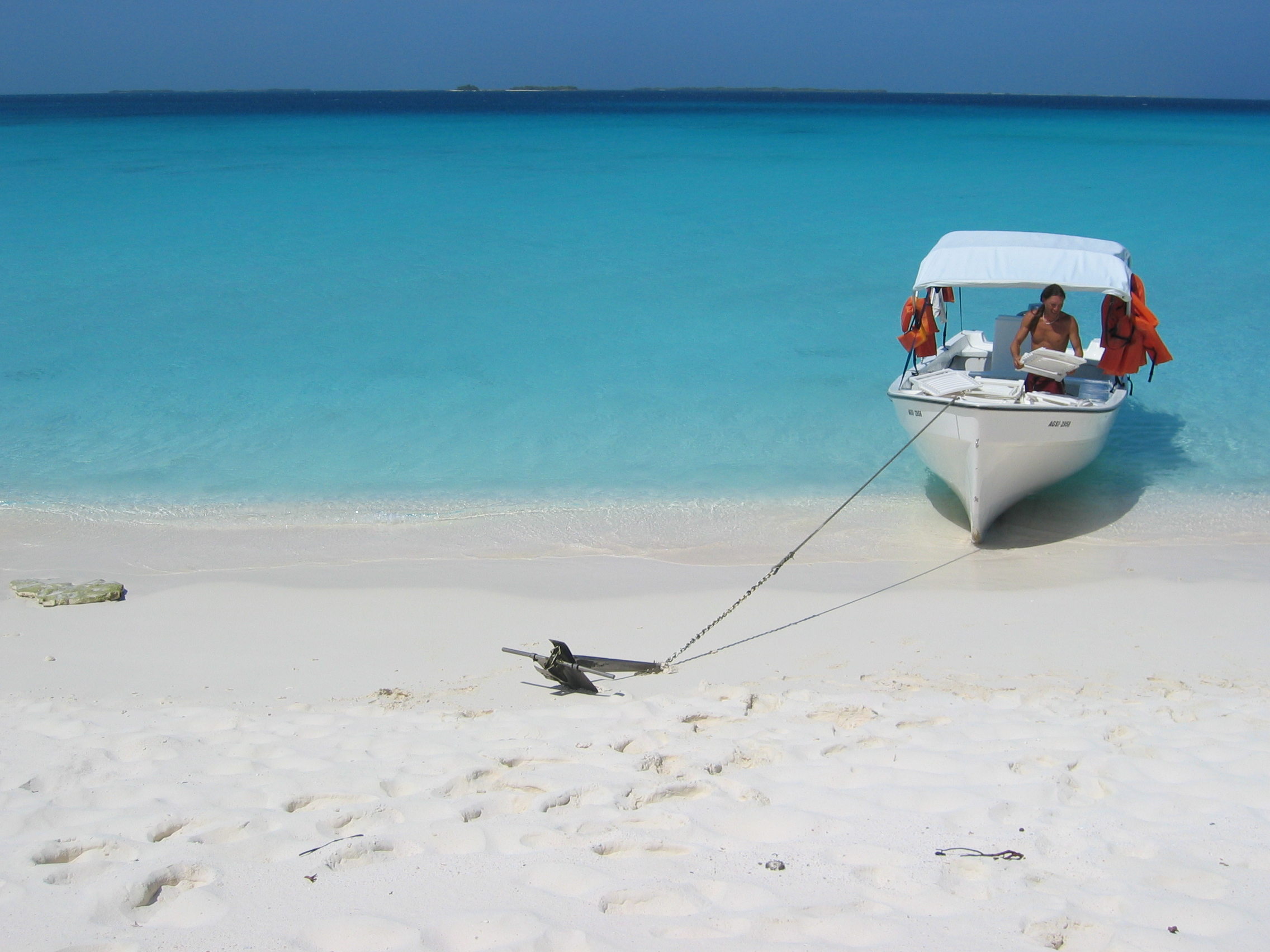 Boat on a beach at Los Roques